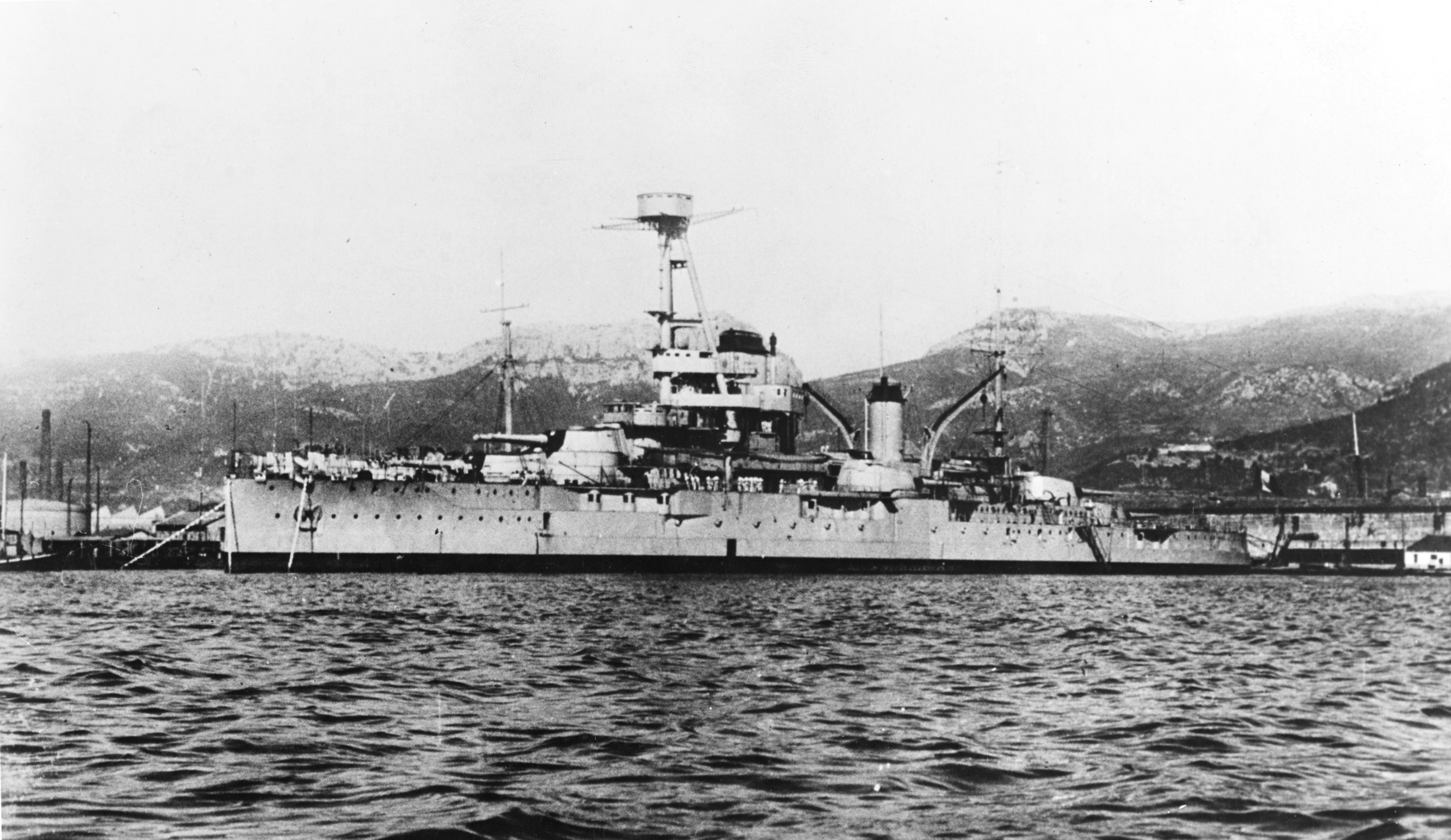 The former French battleship Jean Bart at Toulon, France, while serving as the training ship Océan during 1938-1942.